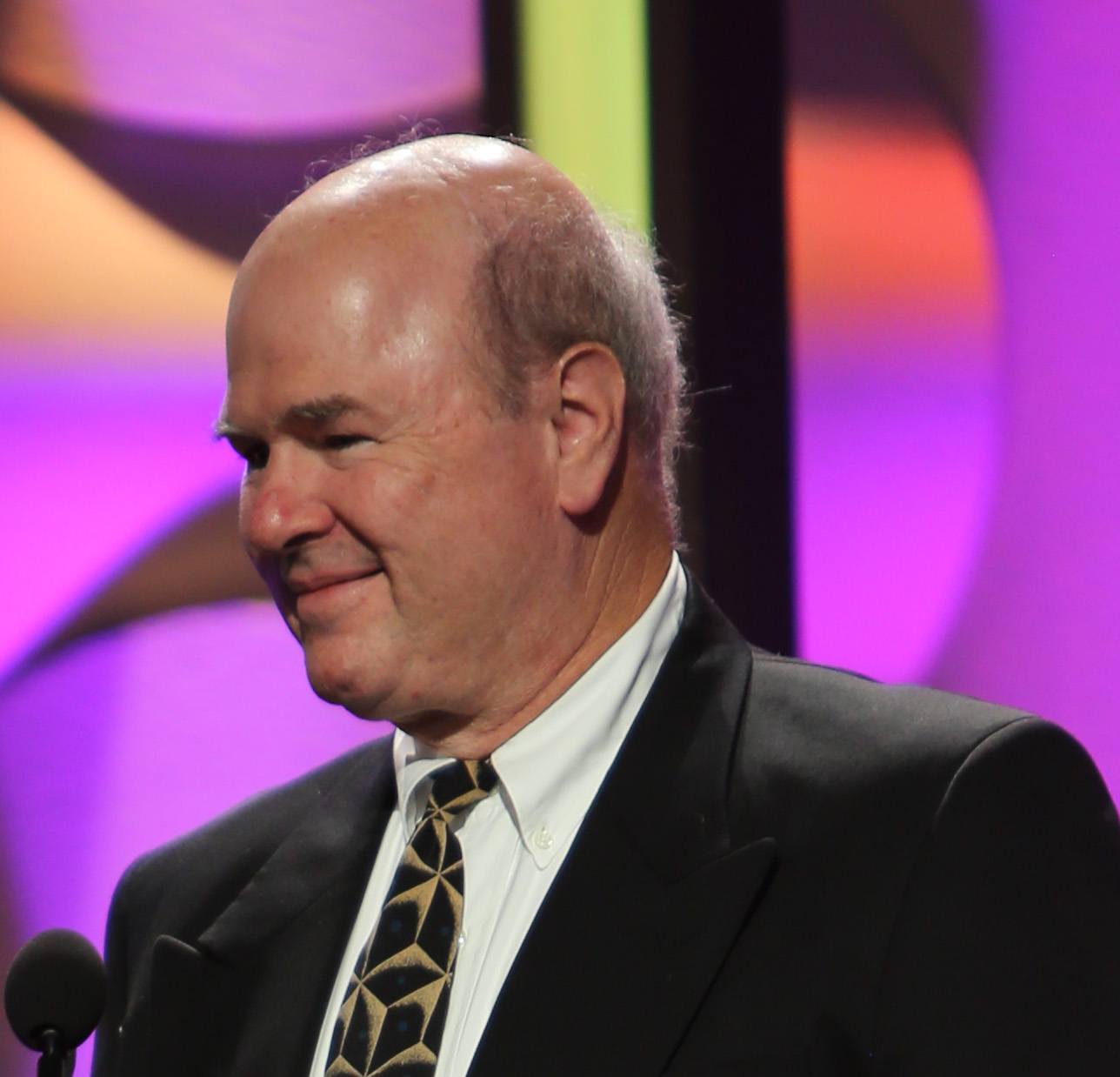 State Farm was proud to sponsor the Arson Dog category for the 2014 American Humane Association Hero Dog Awards, recognizing the incredible contribution that dogs make in our everyday lives.